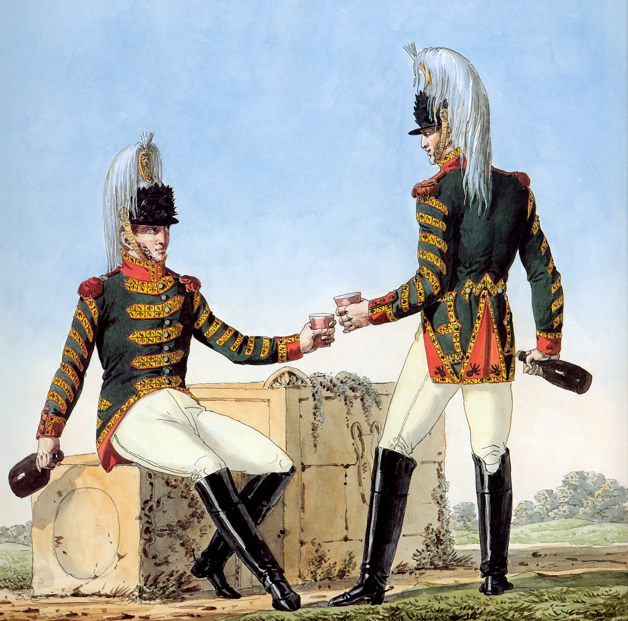 1st Regiment of Cuirassiers - Trumpeters. Part of a series chronicling the uniforms of Napoleon's Grande Armée.